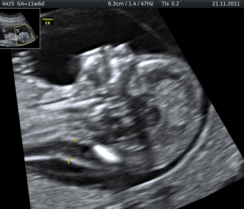 Ultrasound image of measurements of fetal nuchal translucency, and absent nasal bone at 11 weeks of pregnancy. CVS demontrated a trisomy 21 of the fetus